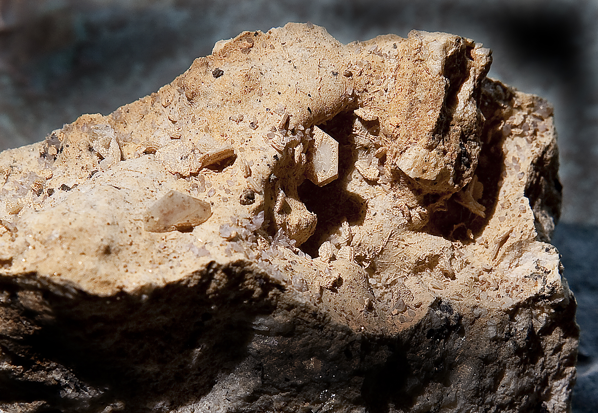 Tridymite - San Pietro Montana (Padova) Italia (XX 6mm)